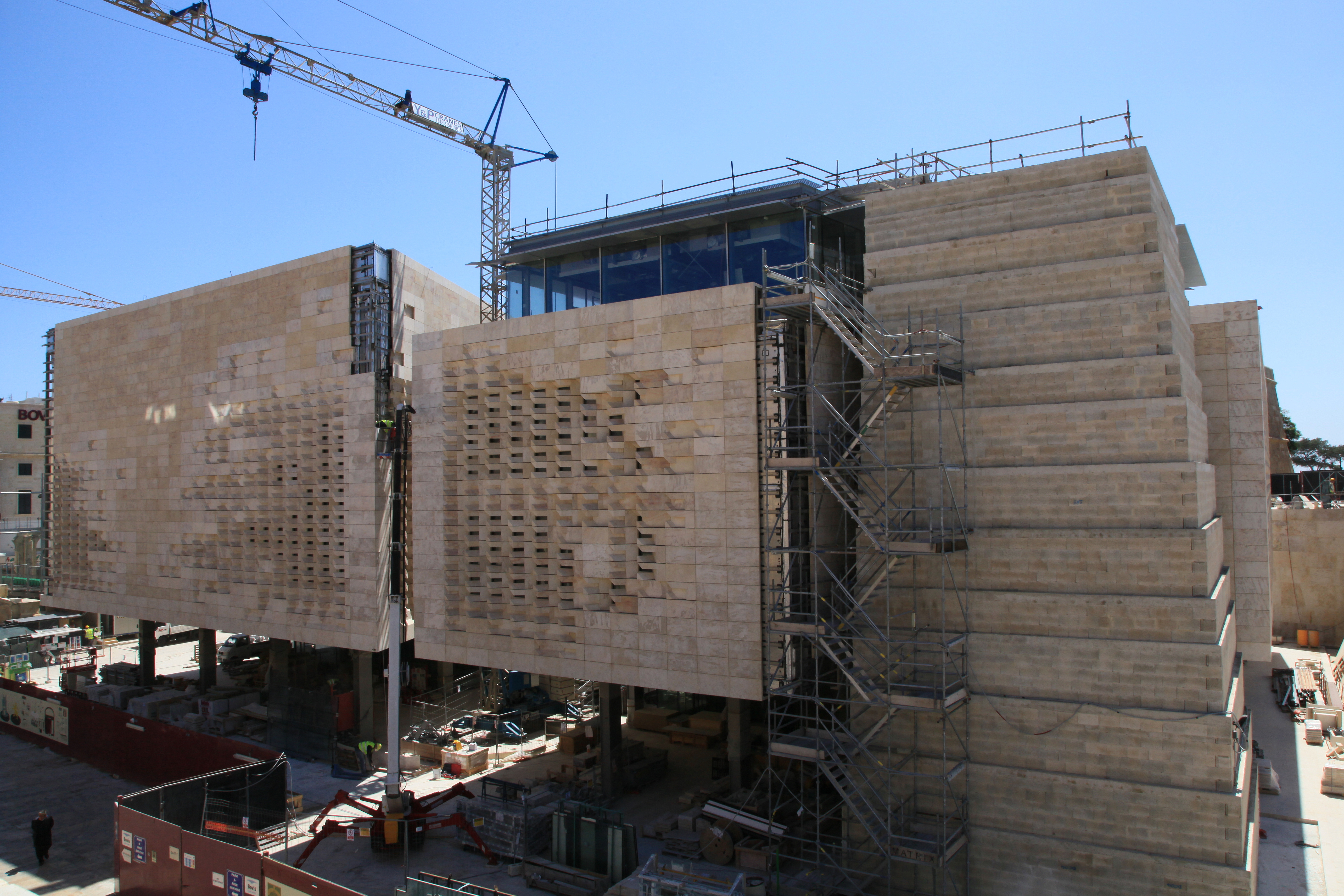 New Parliament Building, Triq ir-Repubblika in Valletta, Malta